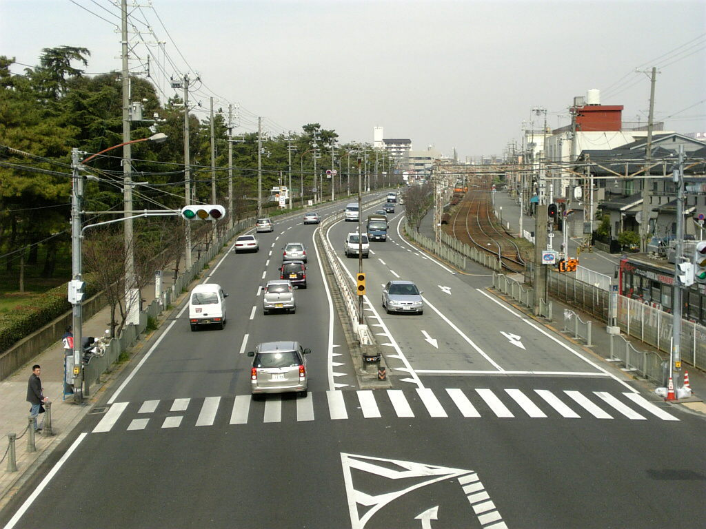 The Osaka Prefectural Road Route 204 at the Hamadera-ekimae Intersection in Sakai City